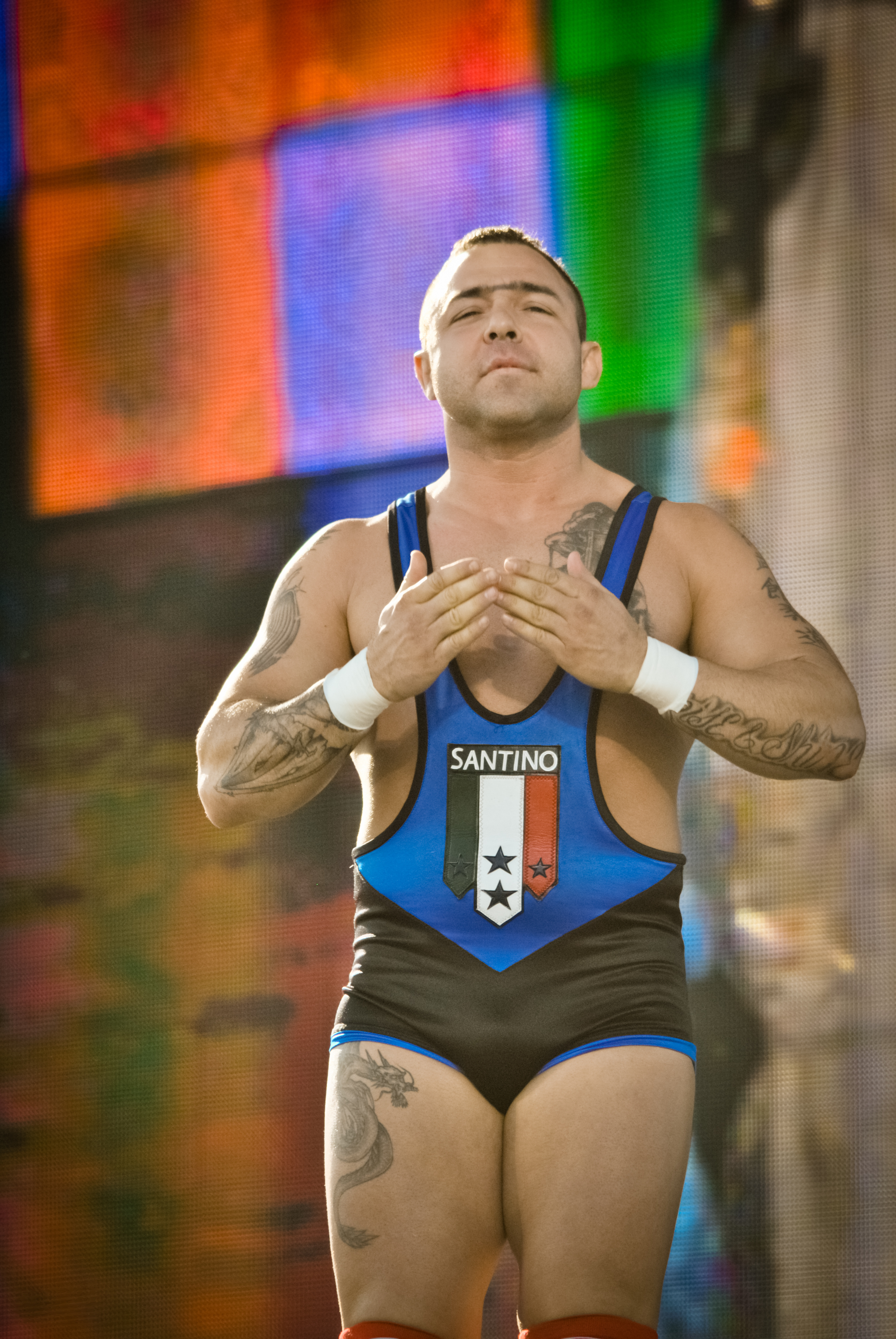 Santino Marella at WWE's Tribute to the Troops show in Fort Hood, Texas, on December 11, 2010.